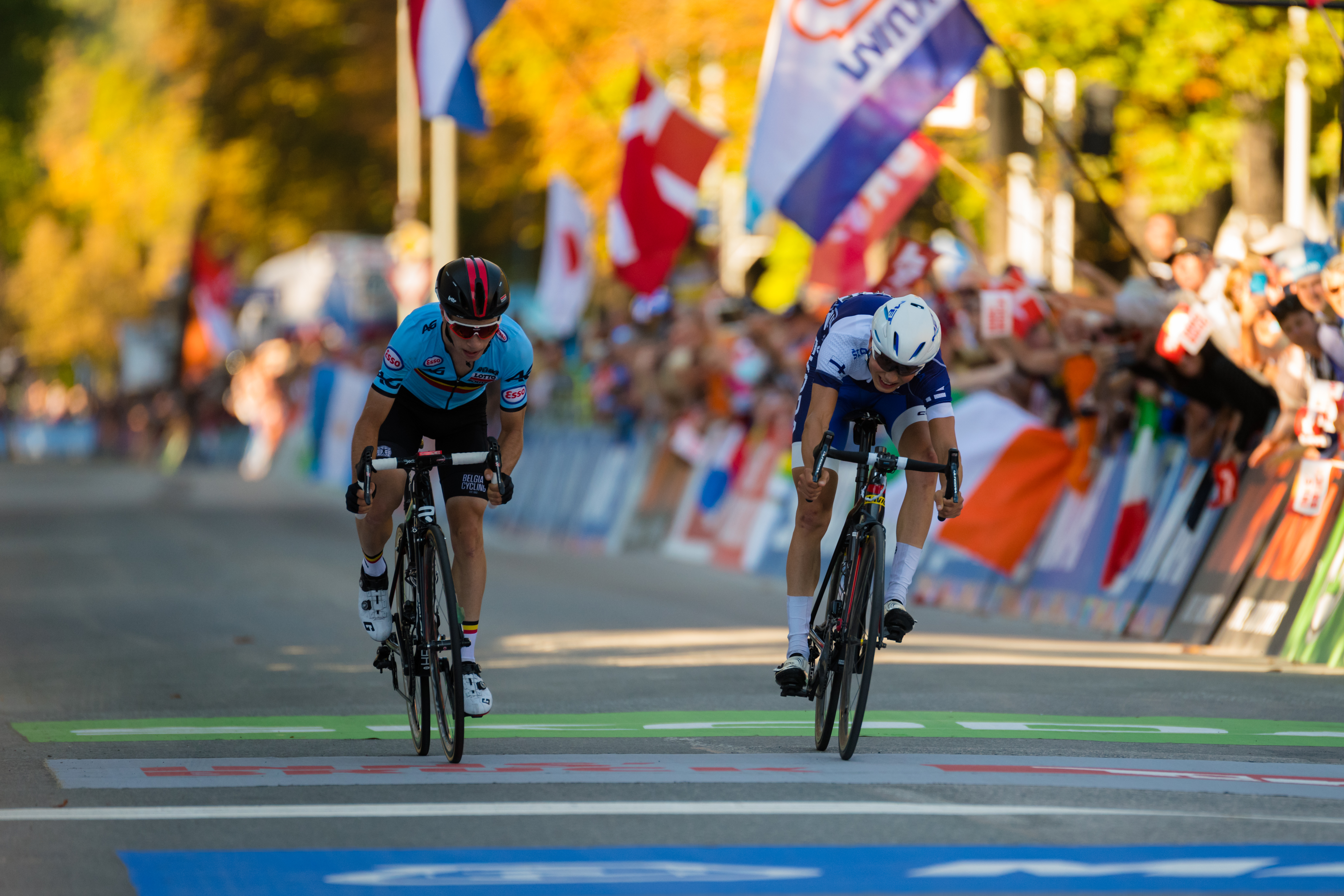 2018 UCI Road World Championships Innsbruck/Tirol Men under 23 Road Racel. Picture shows: Bjorg Lambrecht of Belgium wins the sprint for silver against Jaakko Hanninen of Finland